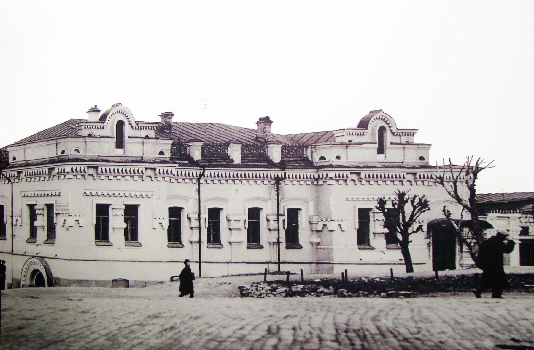 Ipatiev House